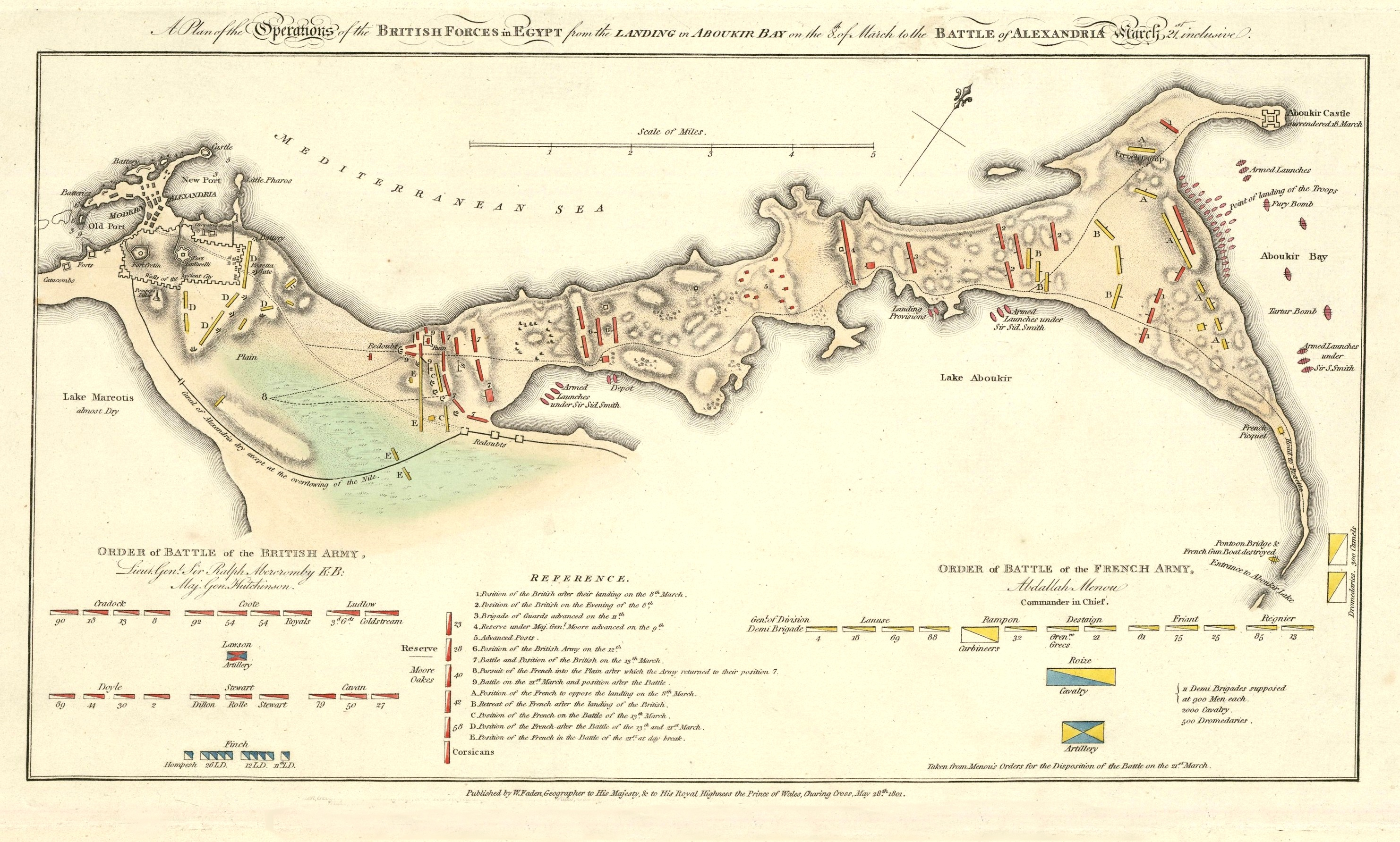 A plan of the Operations of the British Forces in Egypt from the landing in Aboukir Bay on th 8th of March to the Battle of Alexandria March 21st inclusive.